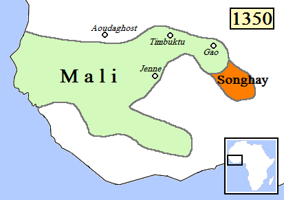 Map of West Africa, AD 1350. (Partially based on Atlas of World History (2007) - Islam and new states in Africa, map.)